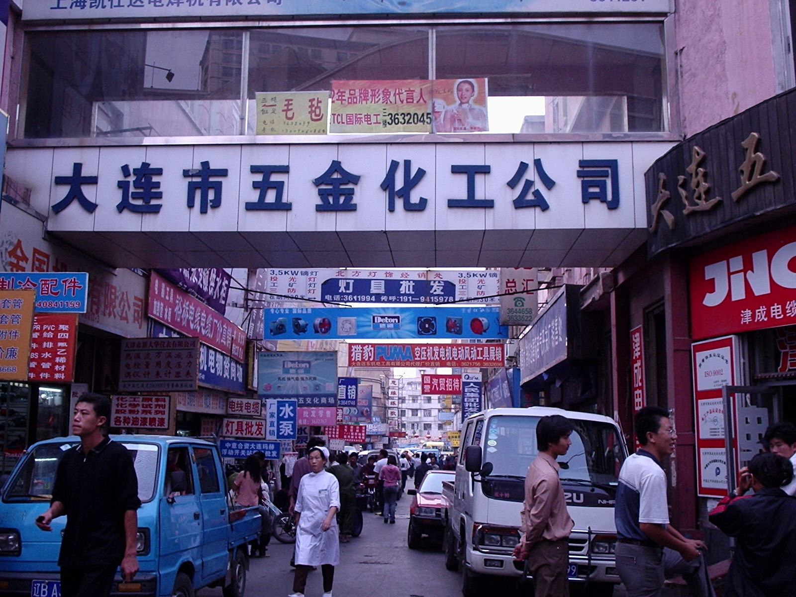 I've called this street electronics street, though in reality it hosts a wide range of shops, stocking all manner of electronic and mechanical goods and parts. Located just next to Victory Square in the centre of town.